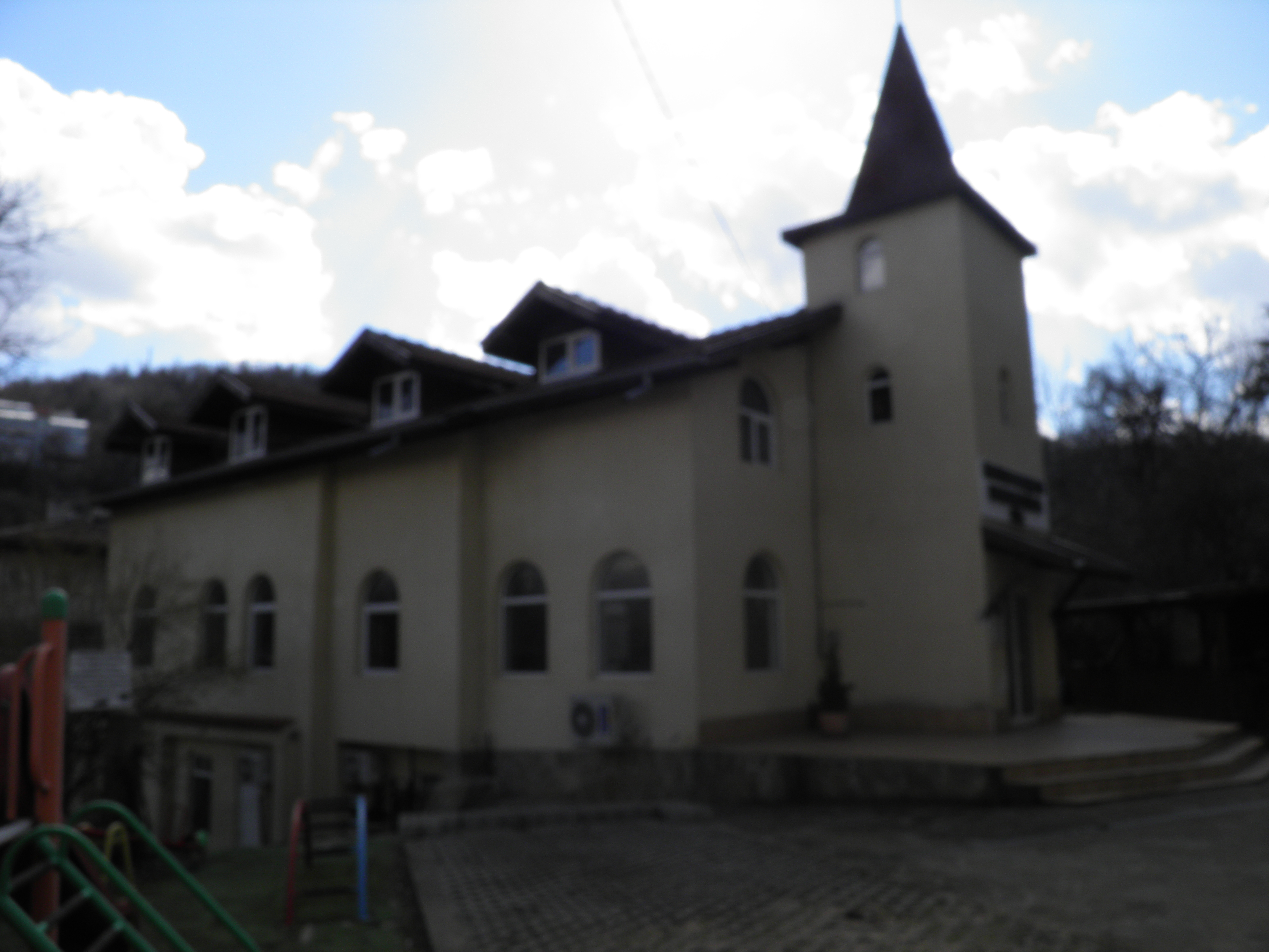 Евангелискна църква Велико Търново